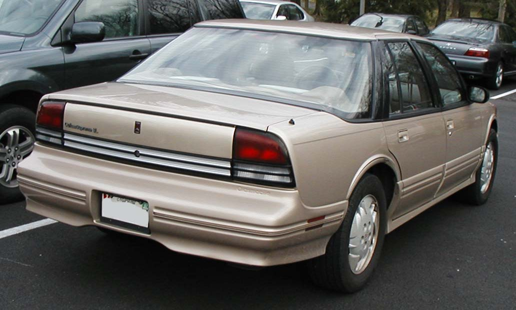 1988-1997 Oldsmobile Cutlass Supreme photographed in USA.